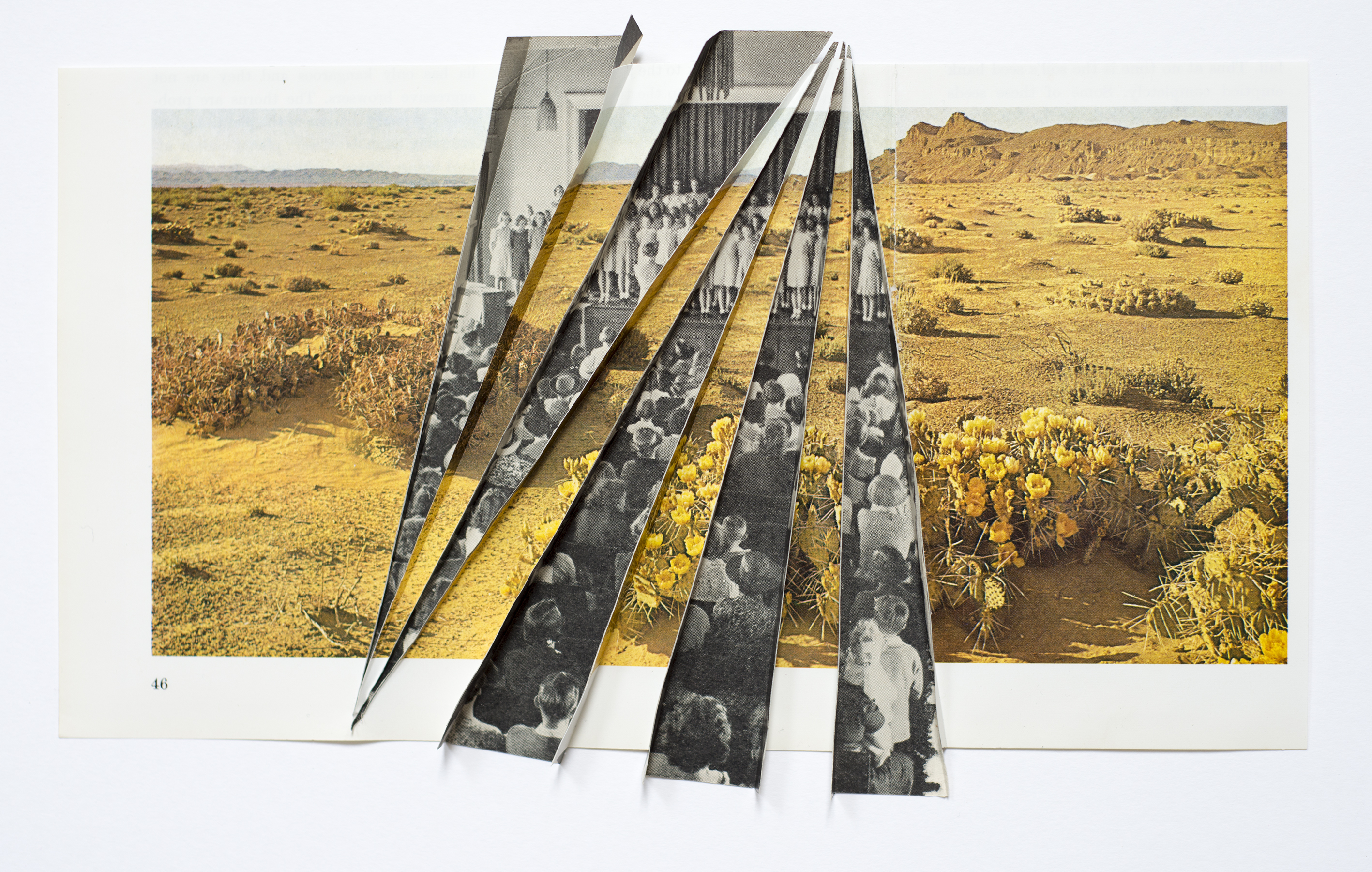 Abigail Reynolds, Desert Seeds (2015).